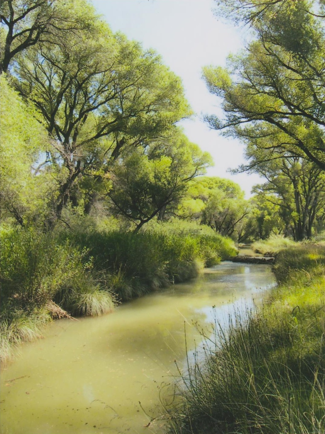 The Babocomari River, facing downstream. Cochise County, Arizona